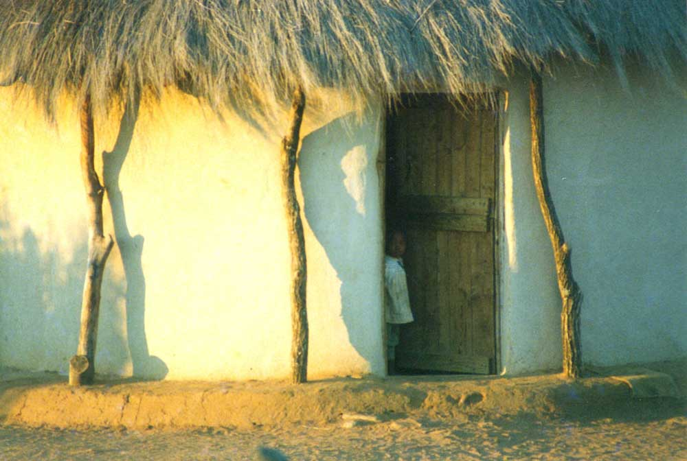 Taken and donated by user:Guinnog